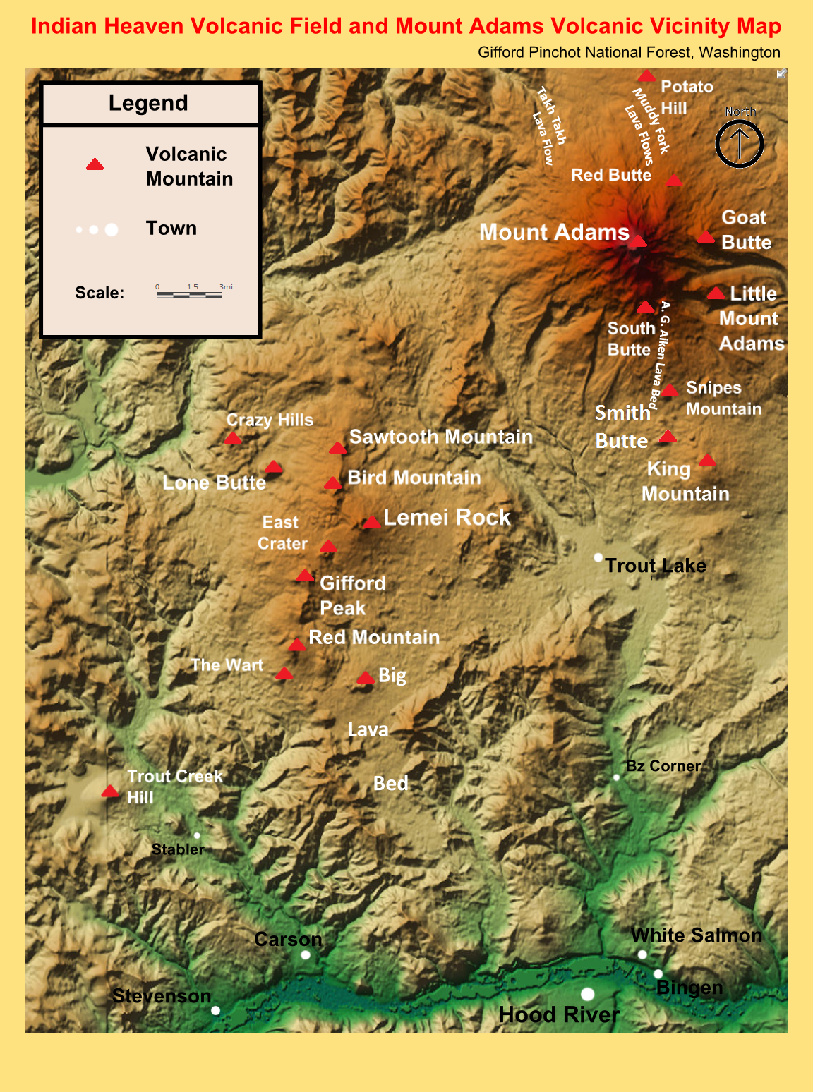 The South Cascades region of Washington (mainly the Gifford Pinchot National Forest) is characterized by ancient volcanic activity. The map shows the locations of the major eruptive volcanoes in the region from the Wind River to the 60 eruptive centers which lie on the Indian Heaven fissure zone, northeast to the King Mountain fissure zone along which Mount Adams was built.